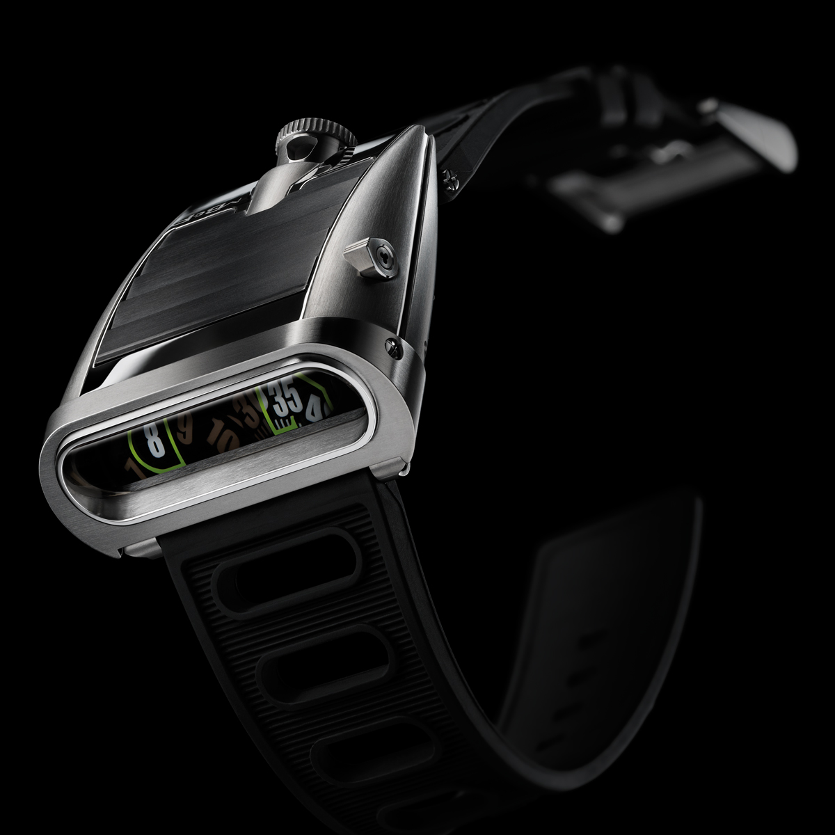 Horological Machine No. 5 (HM5)features bi-directional jumping hours with indications reflected 90° to the vertical and magnified 20% by means of an optical prism. For more information please visit